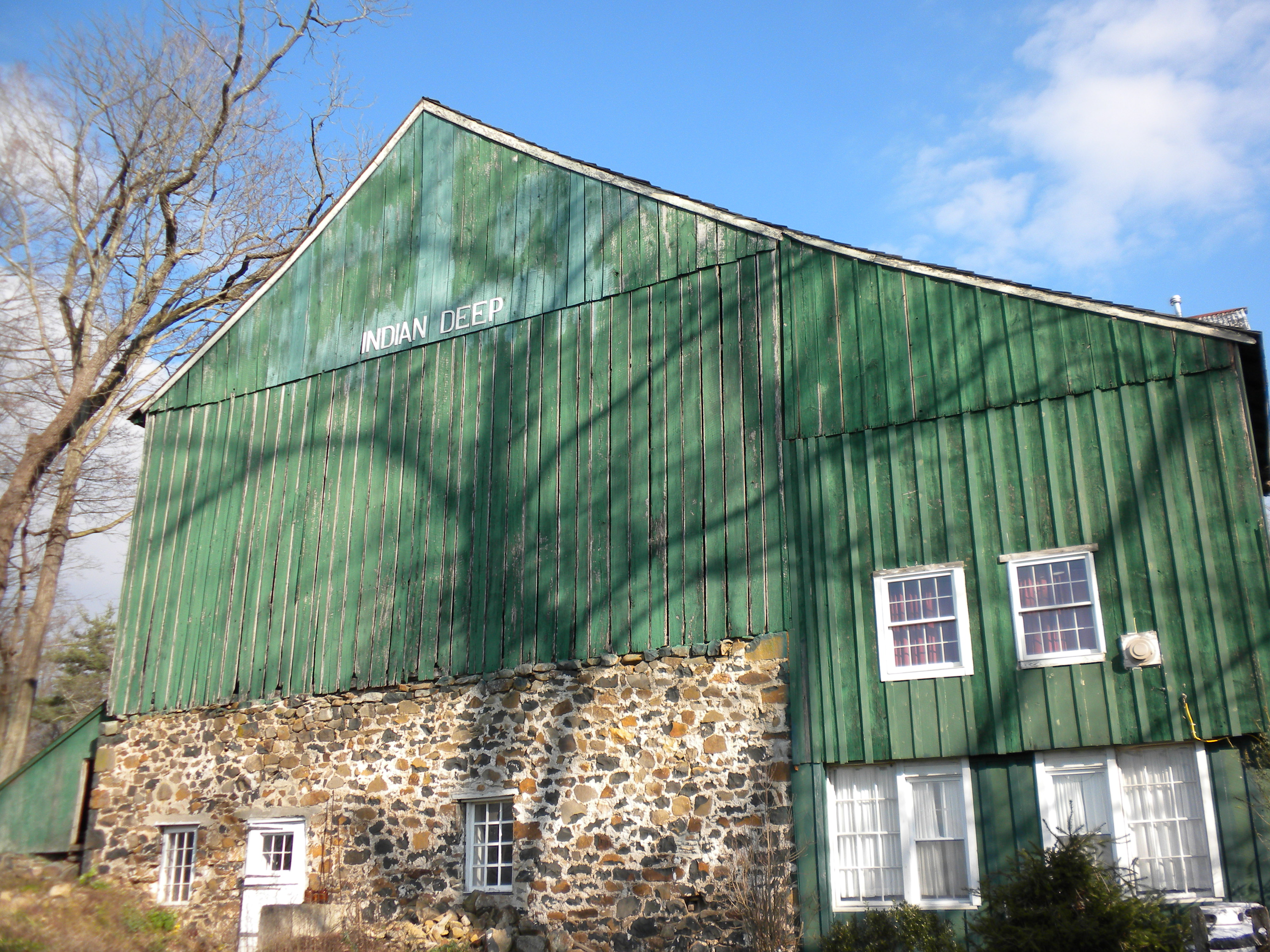 Barn at "Indian Deep" farm in Chester County, PA on NRHP. Yes, I think it really is on Groundhog College Road. This photo is my own work and I donate it to the public domain.